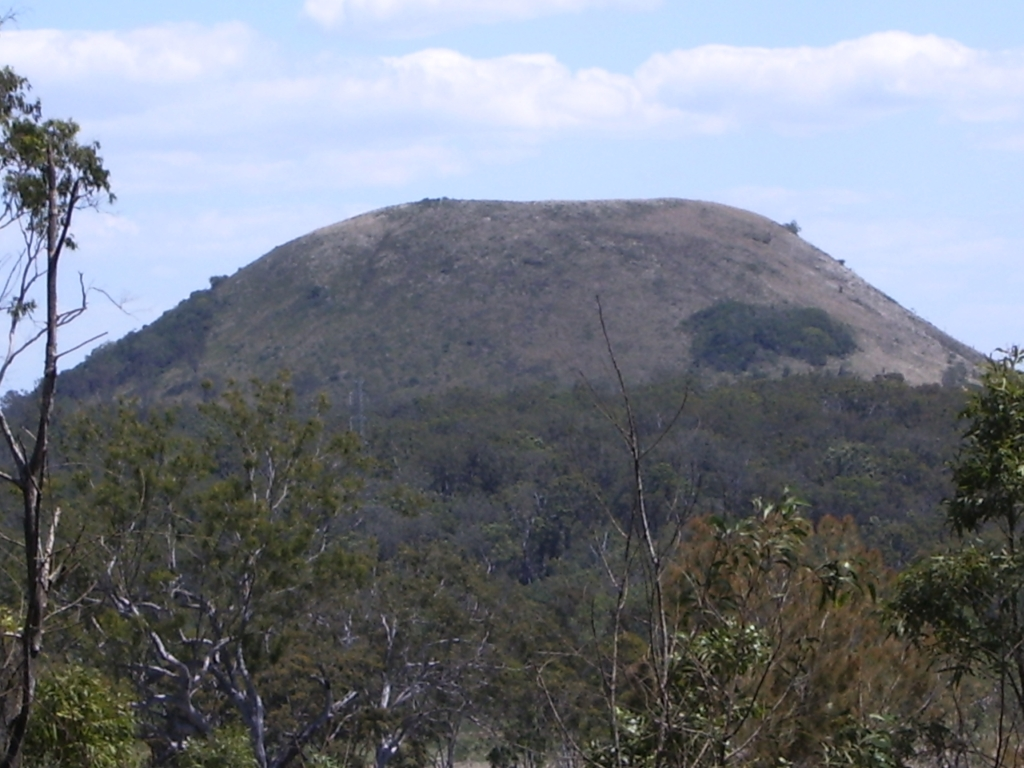 Bmhcjs 01:06, 5 November 2006 (UTC)